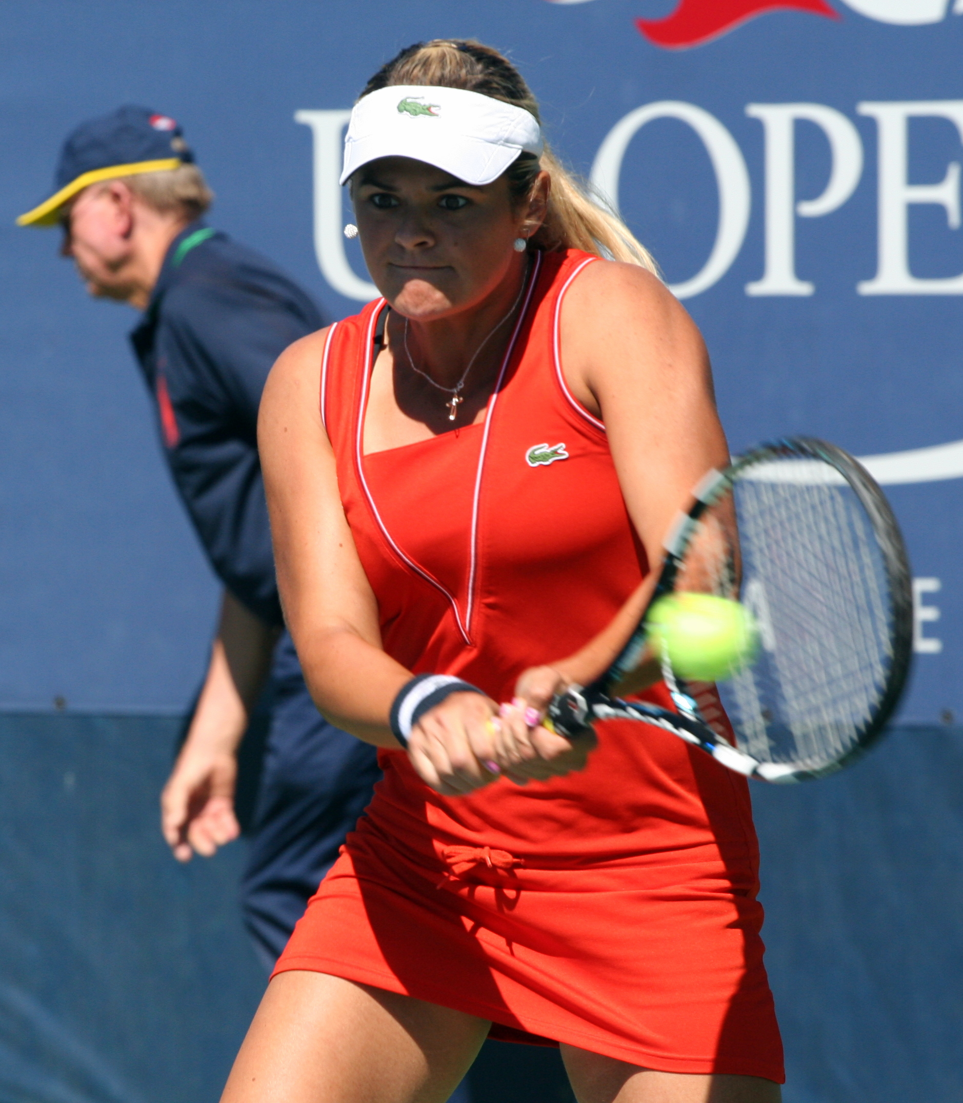 Aleksandra Wozniak at the 2012 US Open